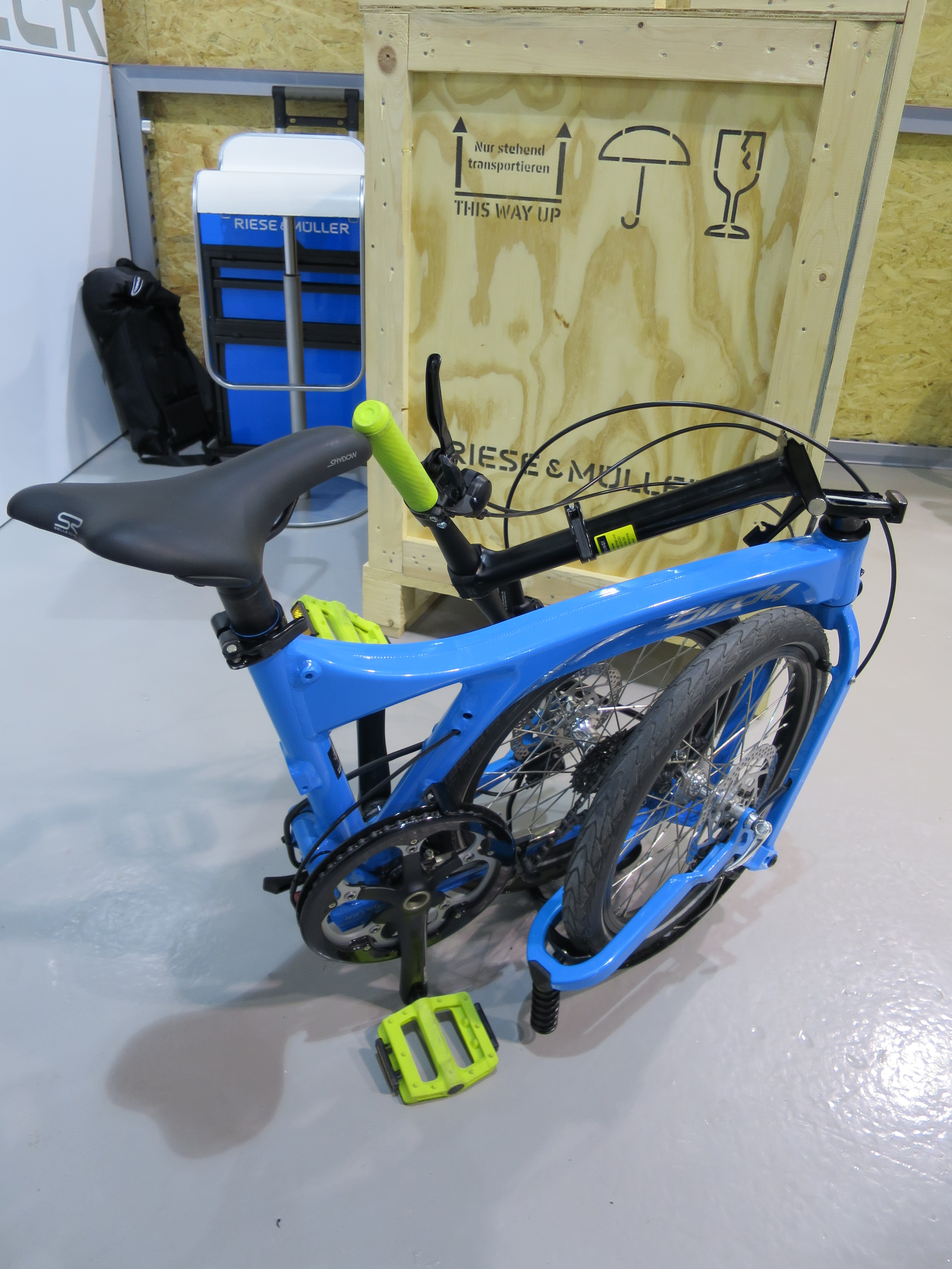 Birdy folding bike Berliner Fahrradschau 2017.